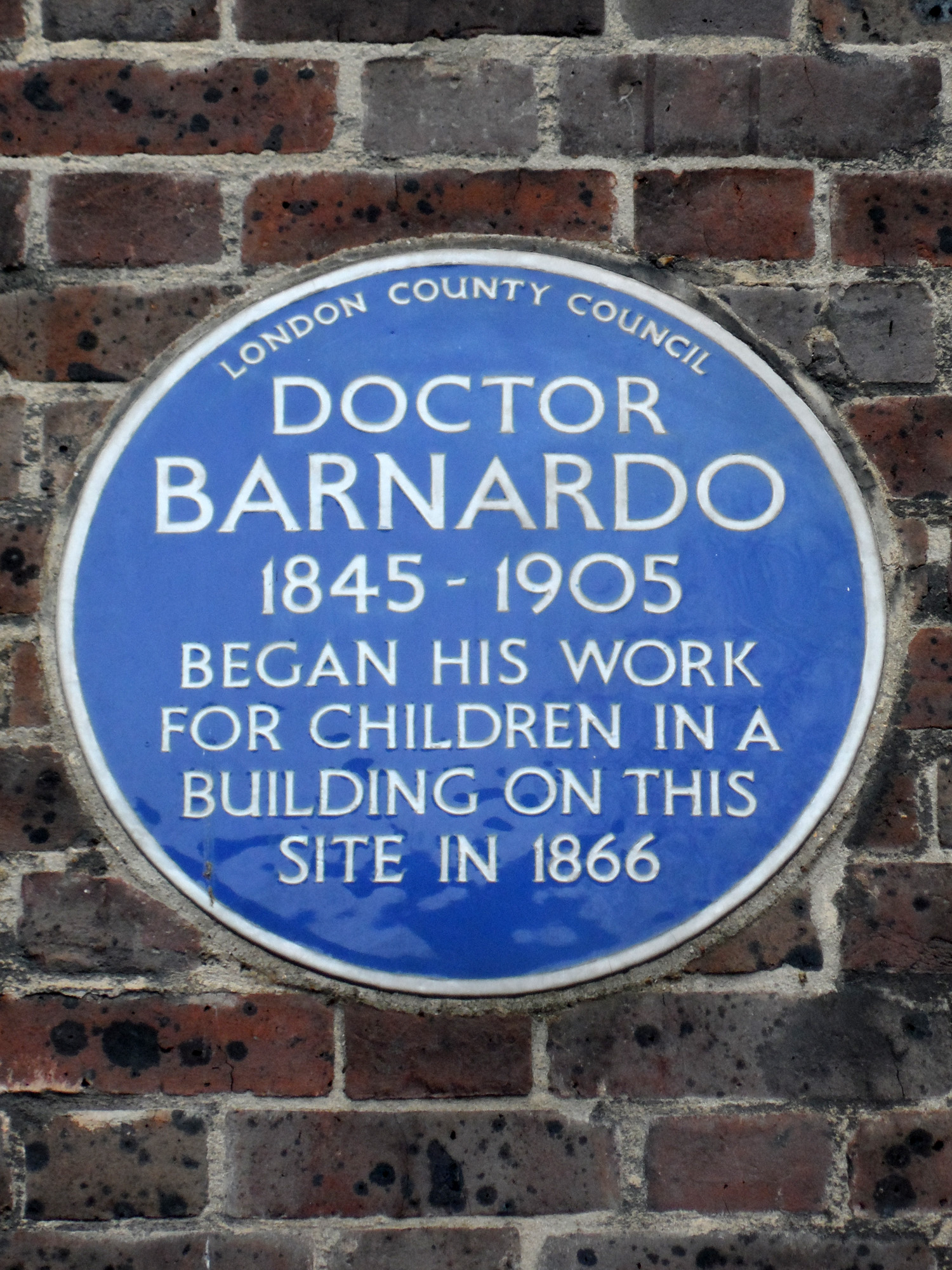 Blue plaque erected in 1953 by London County Council at 58 Solent House, Ben Jonson Road, Stepney, London E1 3NN, London Borough of Tower Hamlets